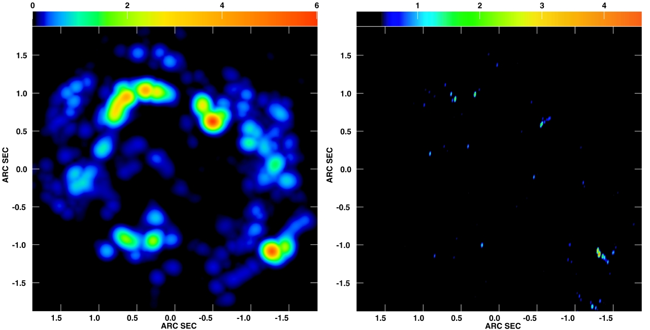 The first e-VLBI science image produced by the European VLBI Network Please attribute: Joint Institute for VLBI in Europe (JIVE)